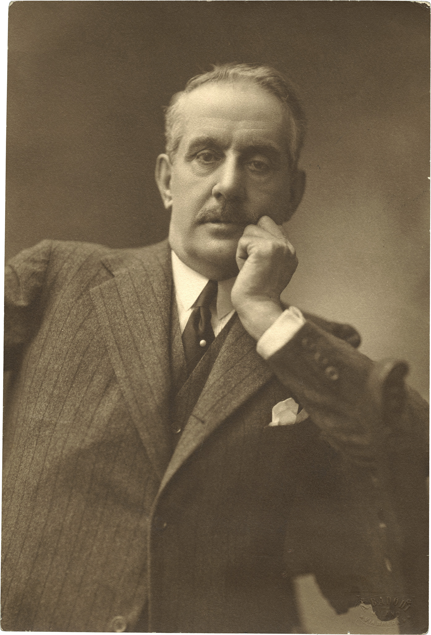 Portrait of Giacomo Puccini, composer (1858-1924). Photo by Attilio Badodi, Milano, 1924.